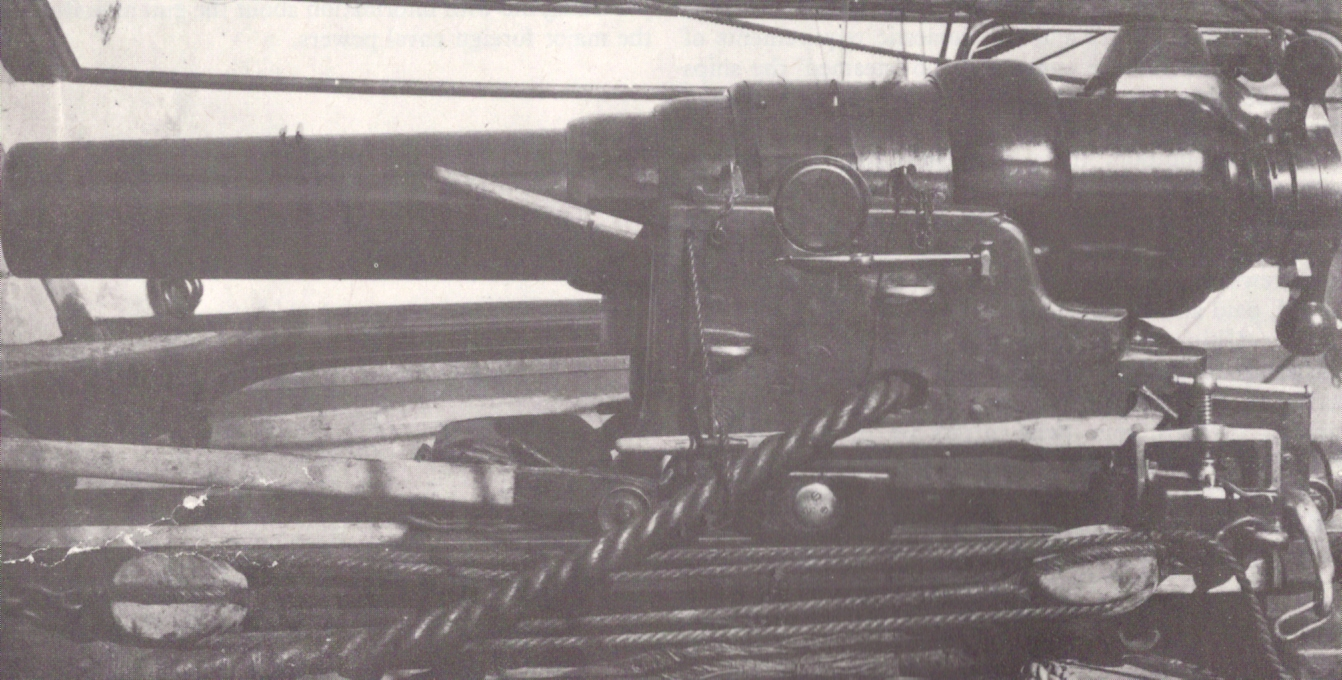 A British naval Armstrong 110-pounder rifled breech-loading gun.